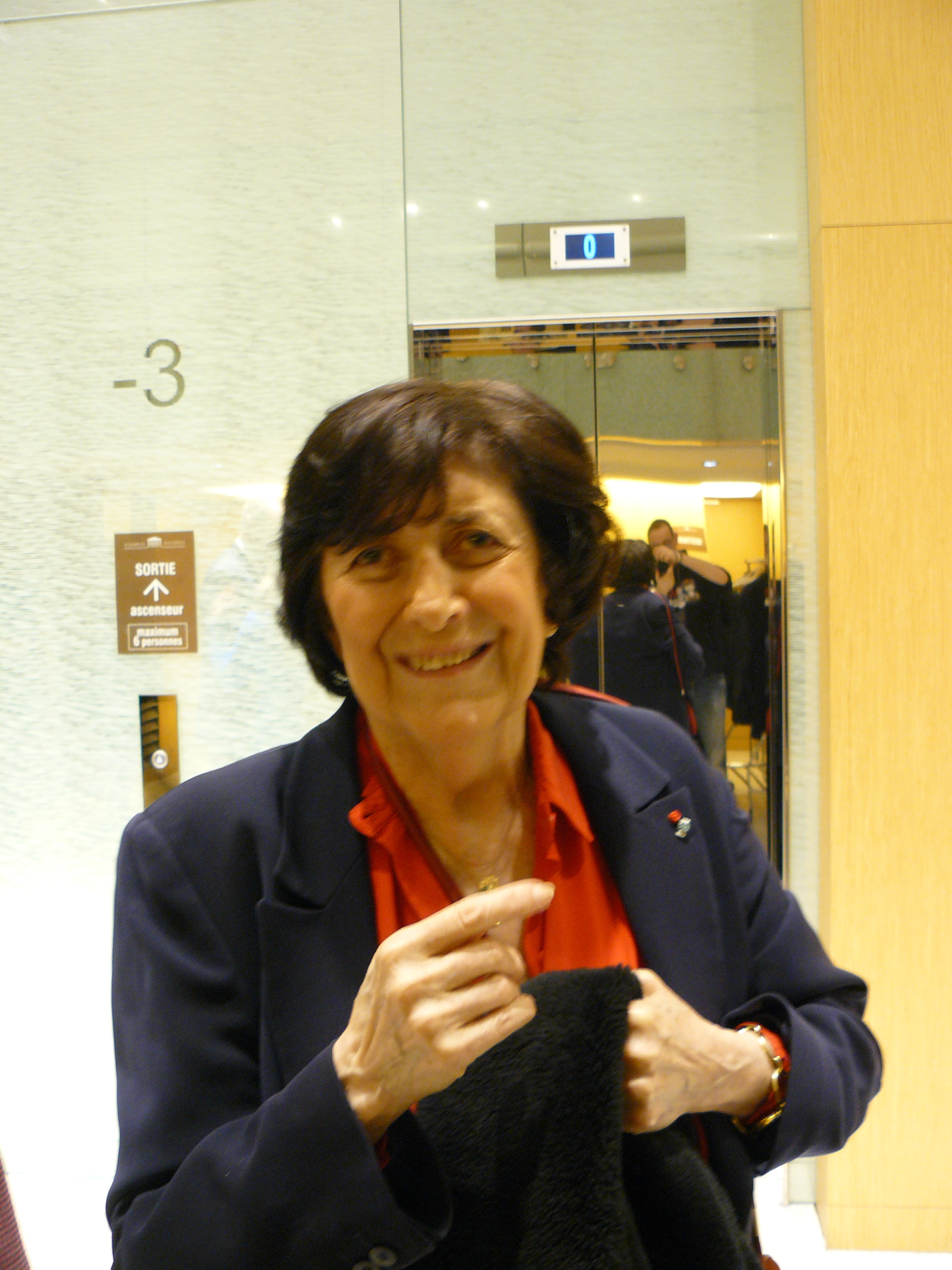 The french linguist Henriette Walter at Dictionnaries Day's 2015 in Paris.